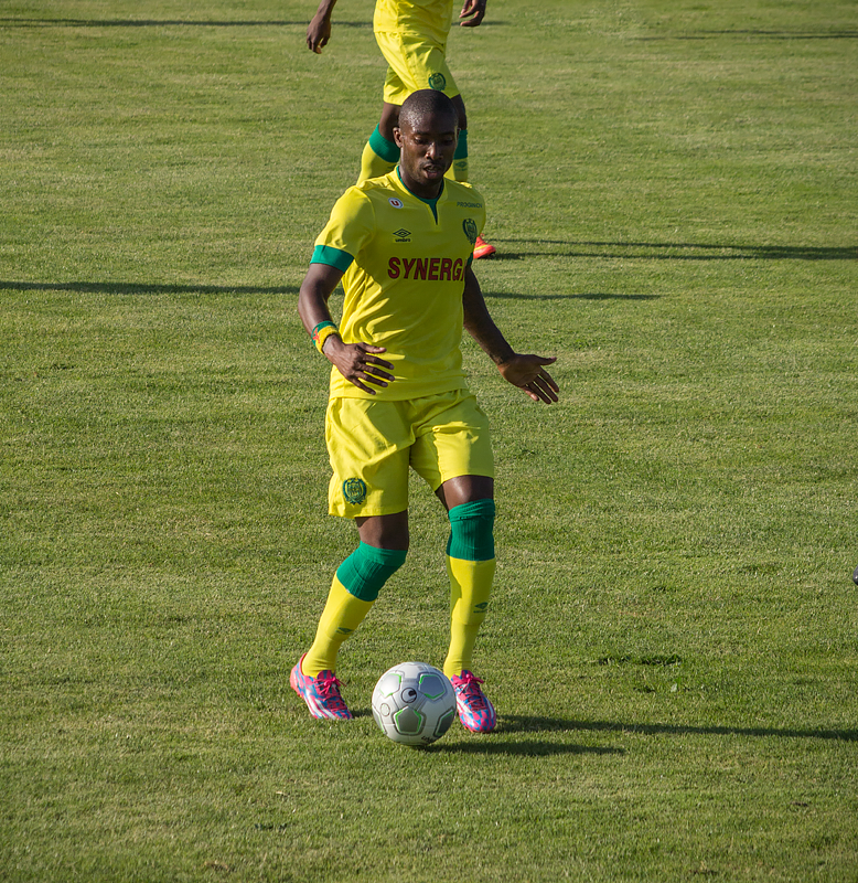 Serge Gakpé, joueur du FC Nantes. 2014.